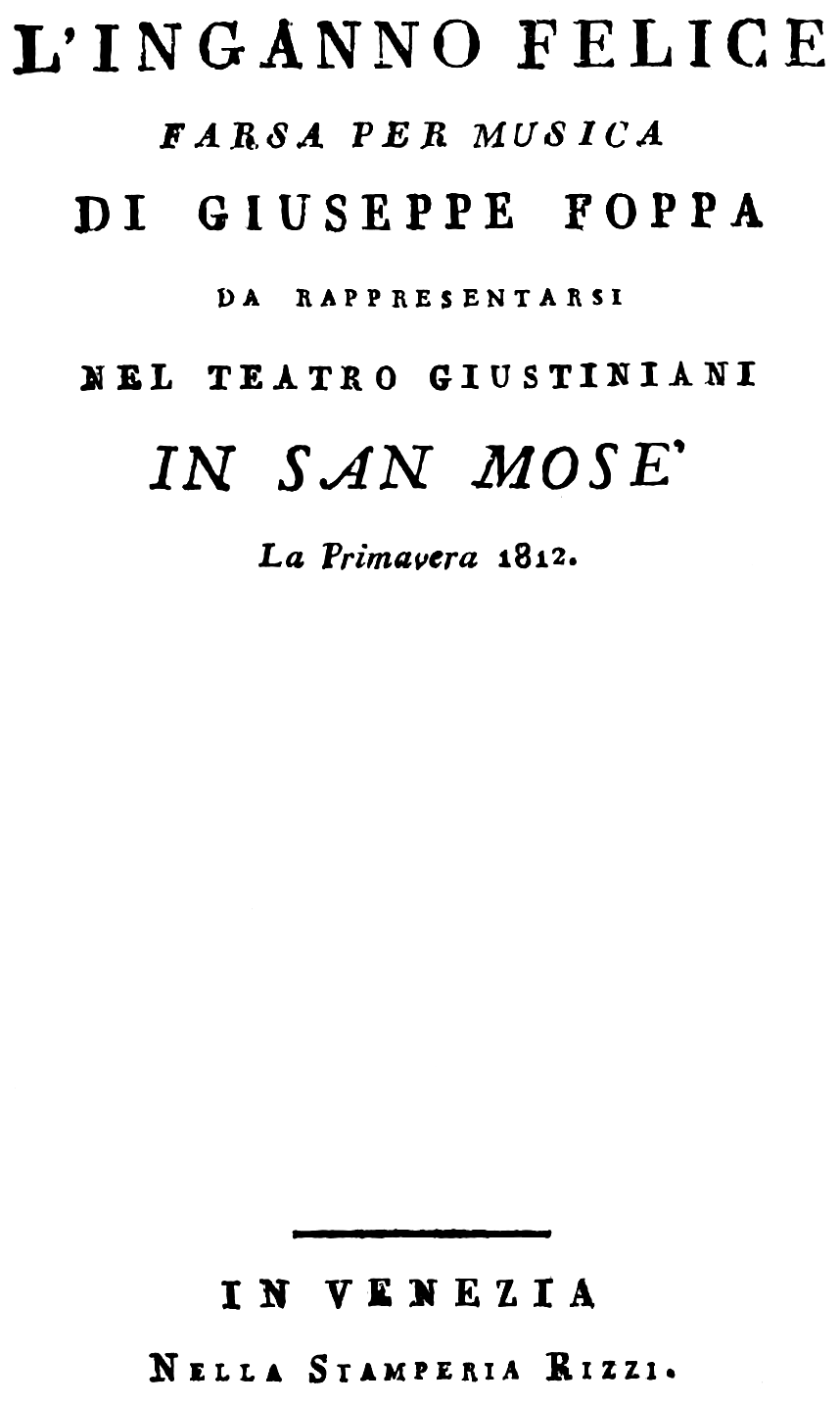 Gioachino Rossini - L’inganno felice - titlepage of the libretto - Venice 1812